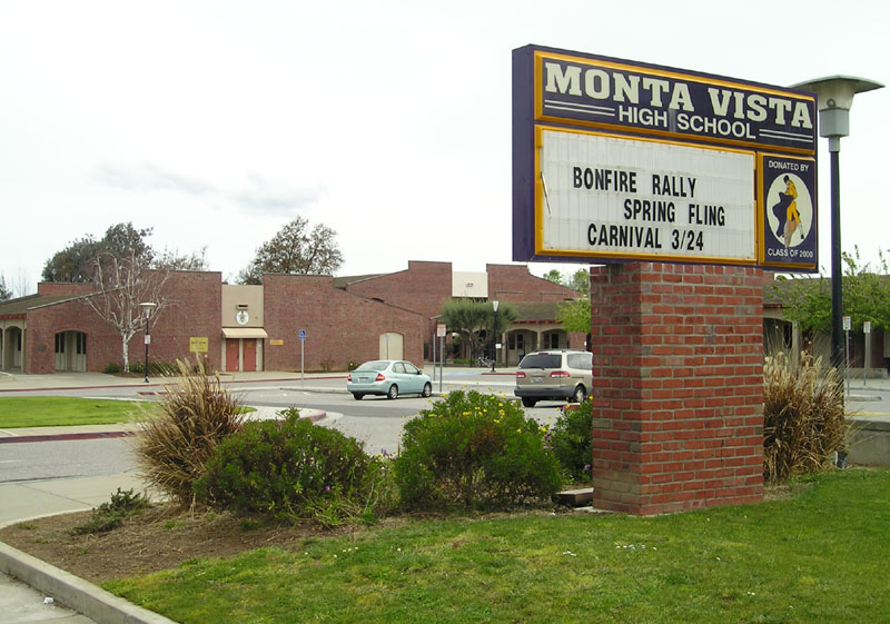 Monta Vista High School front. Taken by User:Elf March 4, 2006.